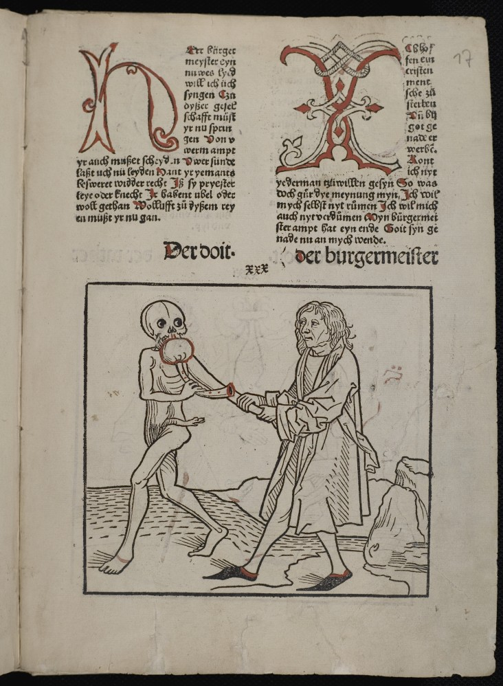 The burgomeister and death, showing death with a bladder-pipe. From the Heidelberger Totentanz p. 33.